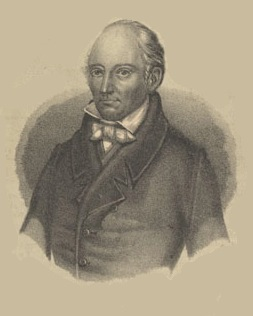 Cropped version of William Foushee portrait